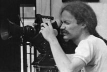 Portrait of Steff Gruber.